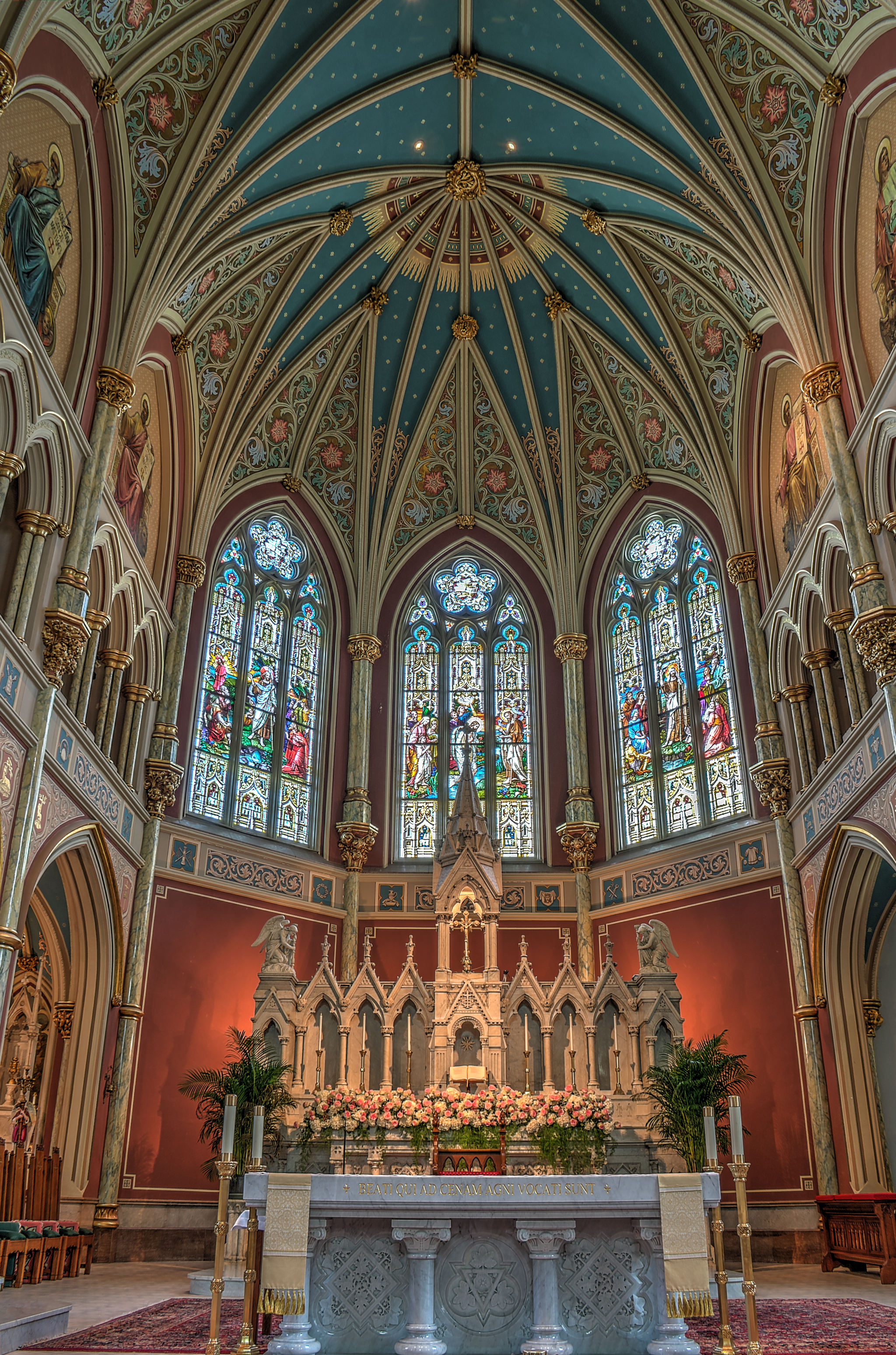 pulpit and communion table